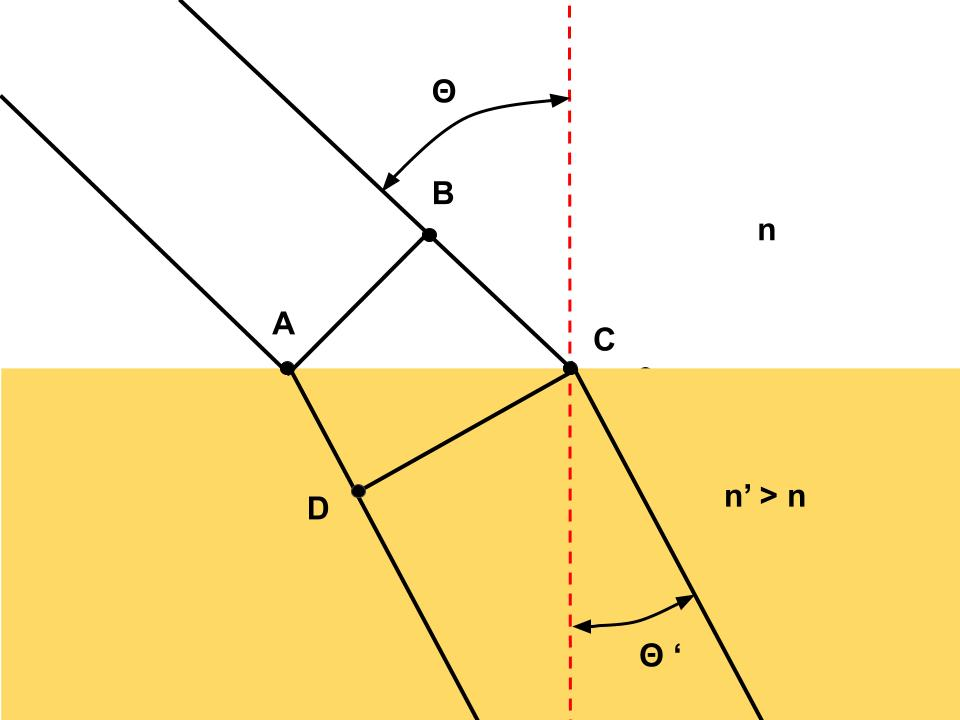 Using Huygens Principle a ray of light is refracted since the speed of light is different in the two media